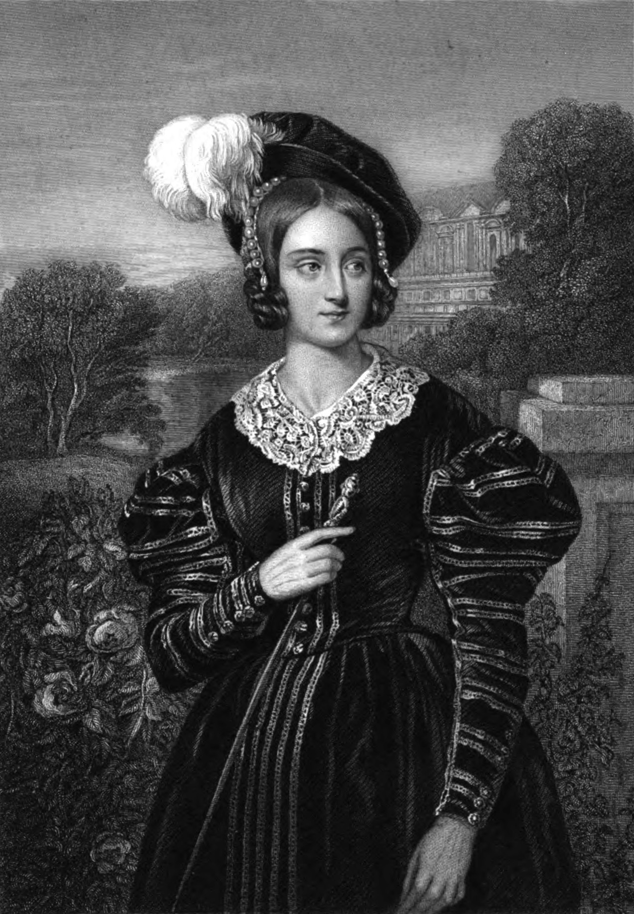 Julie Dorus-Gras, soprano, as Marguerite de Valois in Meyerbeer's Les Huguenots, a role she created at the Paris Opera.